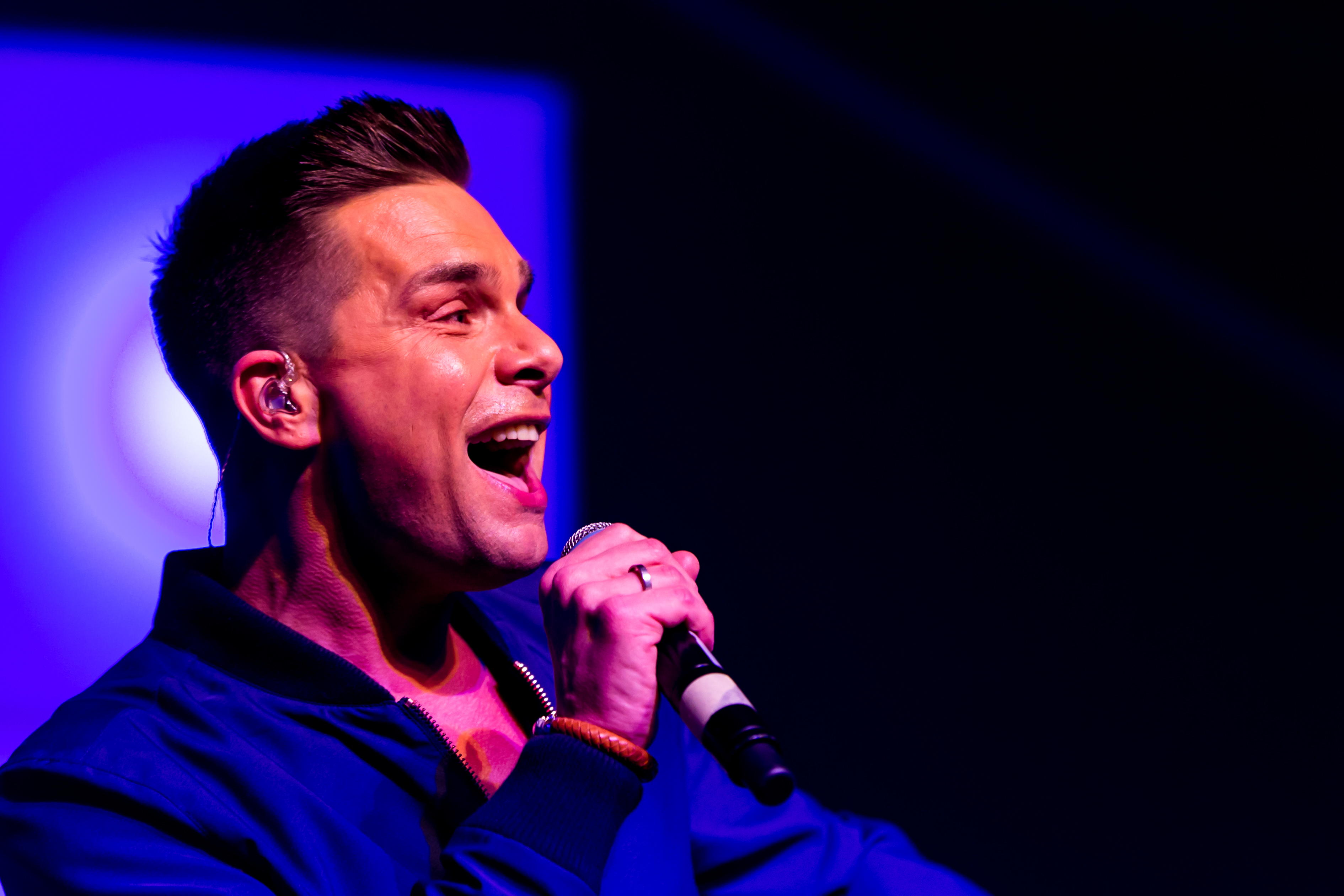 RPR1 90er Festival Maimarkthalle Mannheim Eloy, LayZee aka Mr. President, Nana, Right Said Fred, Snap! feat. Penny Ford during RPR1 90er Festival at Maimarkthalle, Mannheim, Baden-Württemberg, Germany on 2015-03-14, Photo: Sven Mandel